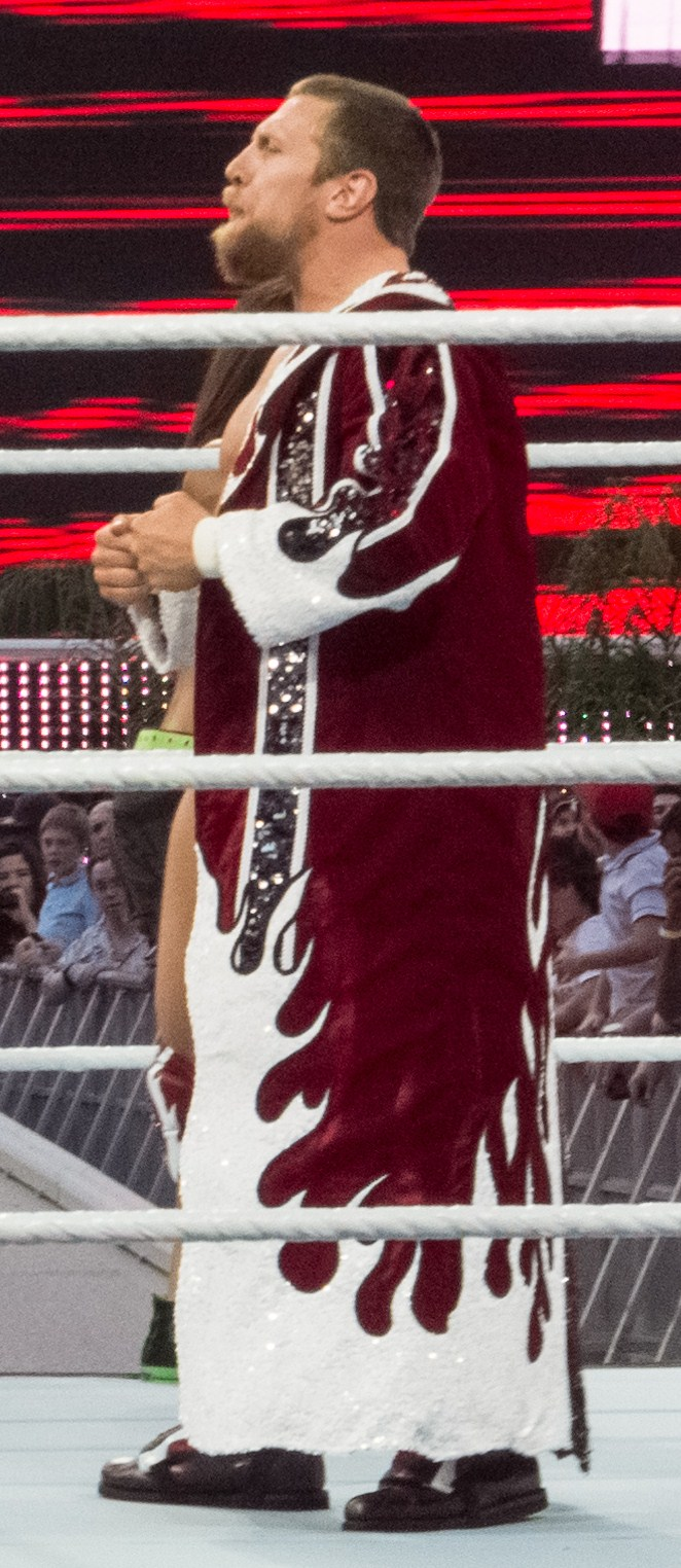 Daniel Bryan at WrestleMania 28